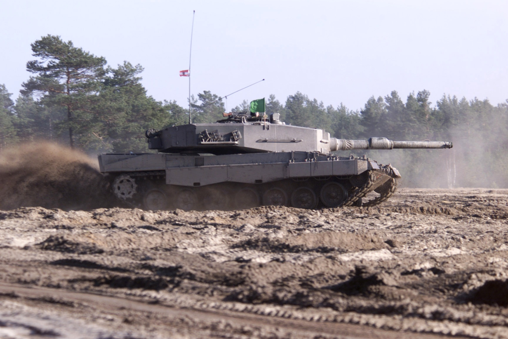 Austrian 4th Infantry Brigade conducts Leopard main battle tank live fire training during Operation Crisis Response. Crisis Response Operation is part of the NATO exercise Strong Resolve 2002 (SR02). SR02 is a NATO exercise with two simultaneous operations; Article Five Operation and Crisis Response Operation. SR02 is conducted in Poland, Norway and Baltic Sea. To date there have been three Strong Resolve exercises conducted. They are conducted every four years. U.S. Navy photo by George Sisting.